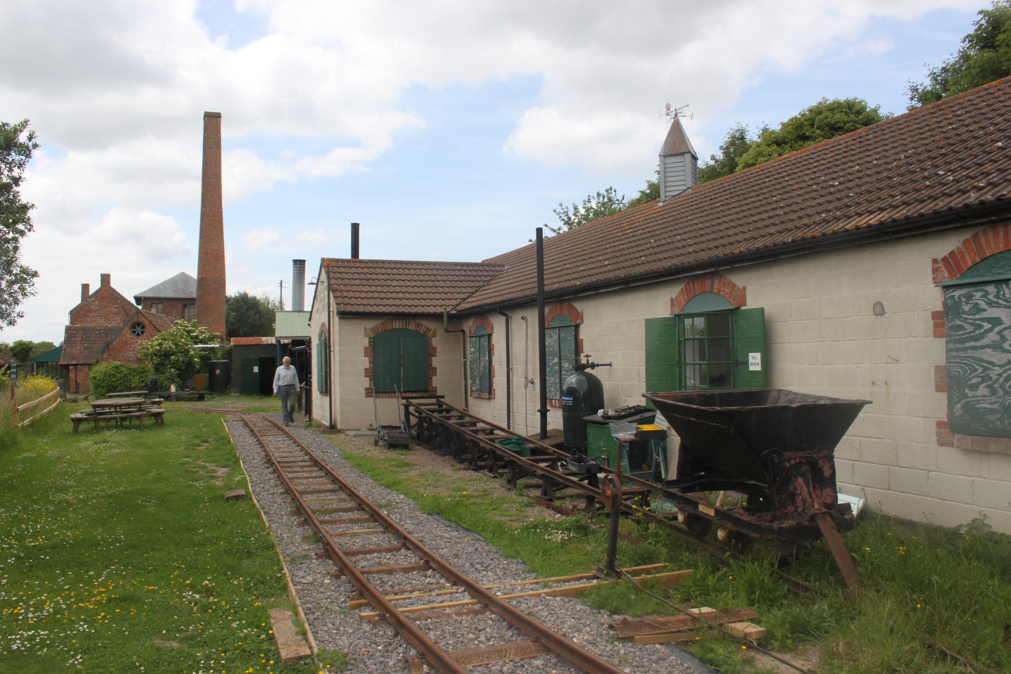 Westonzoyland Pumping Station Museum